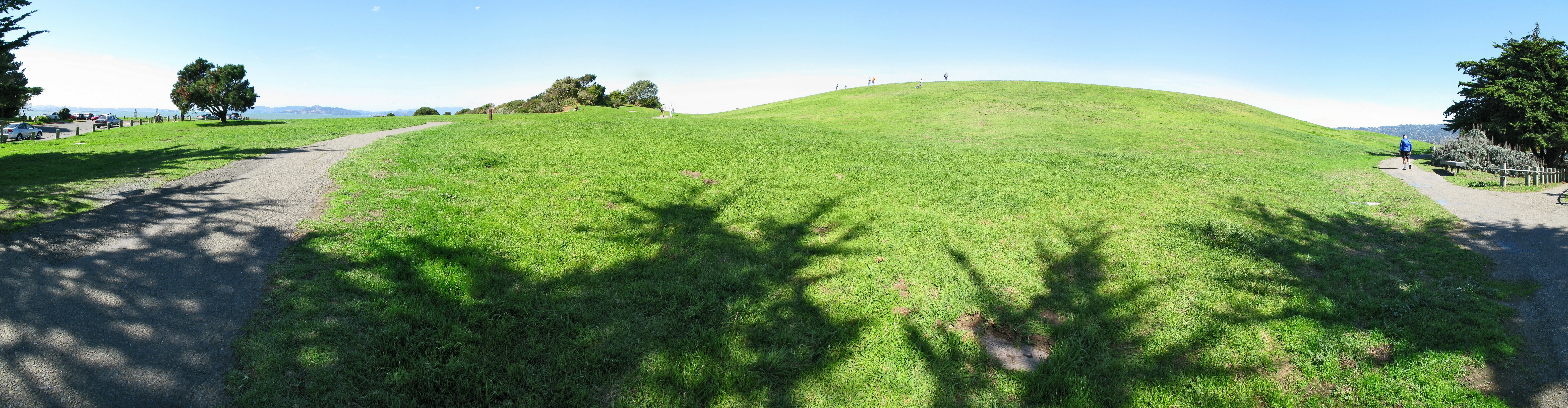 The open grassy hills of César Chávez Park, October 2007